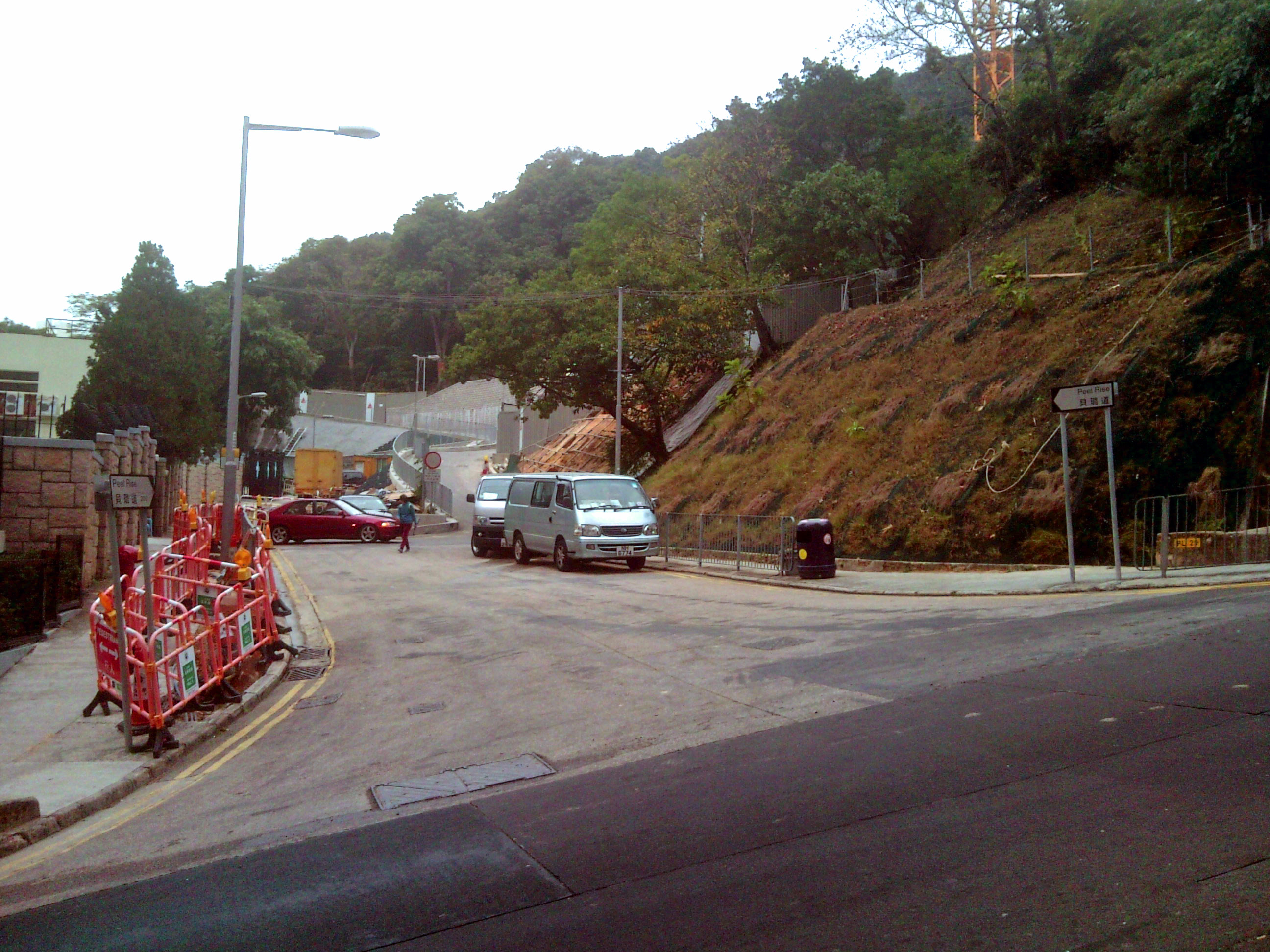 Peel Rise near Aberdeen Reservoir Road